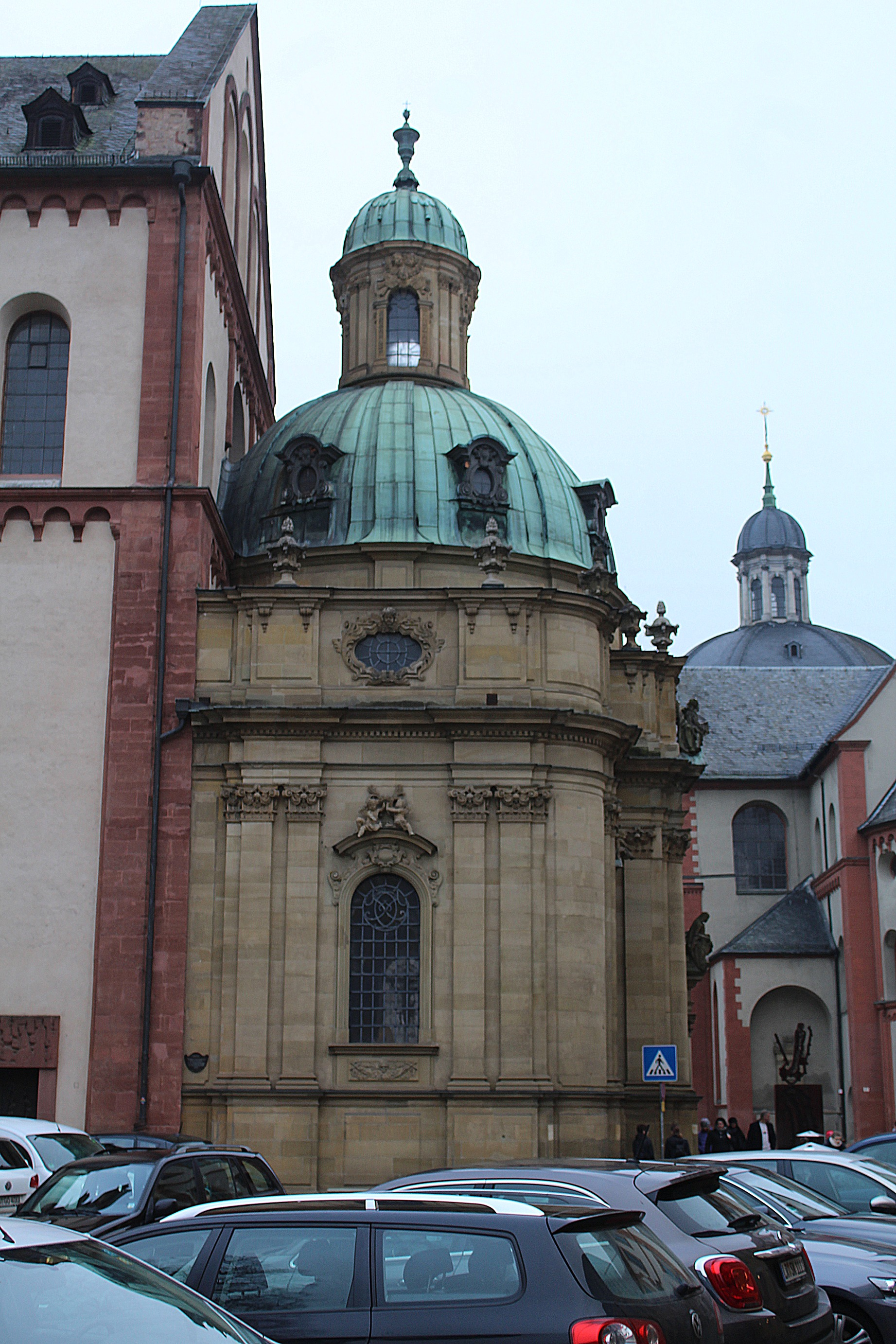 Würzburg, the Schönborn chapel